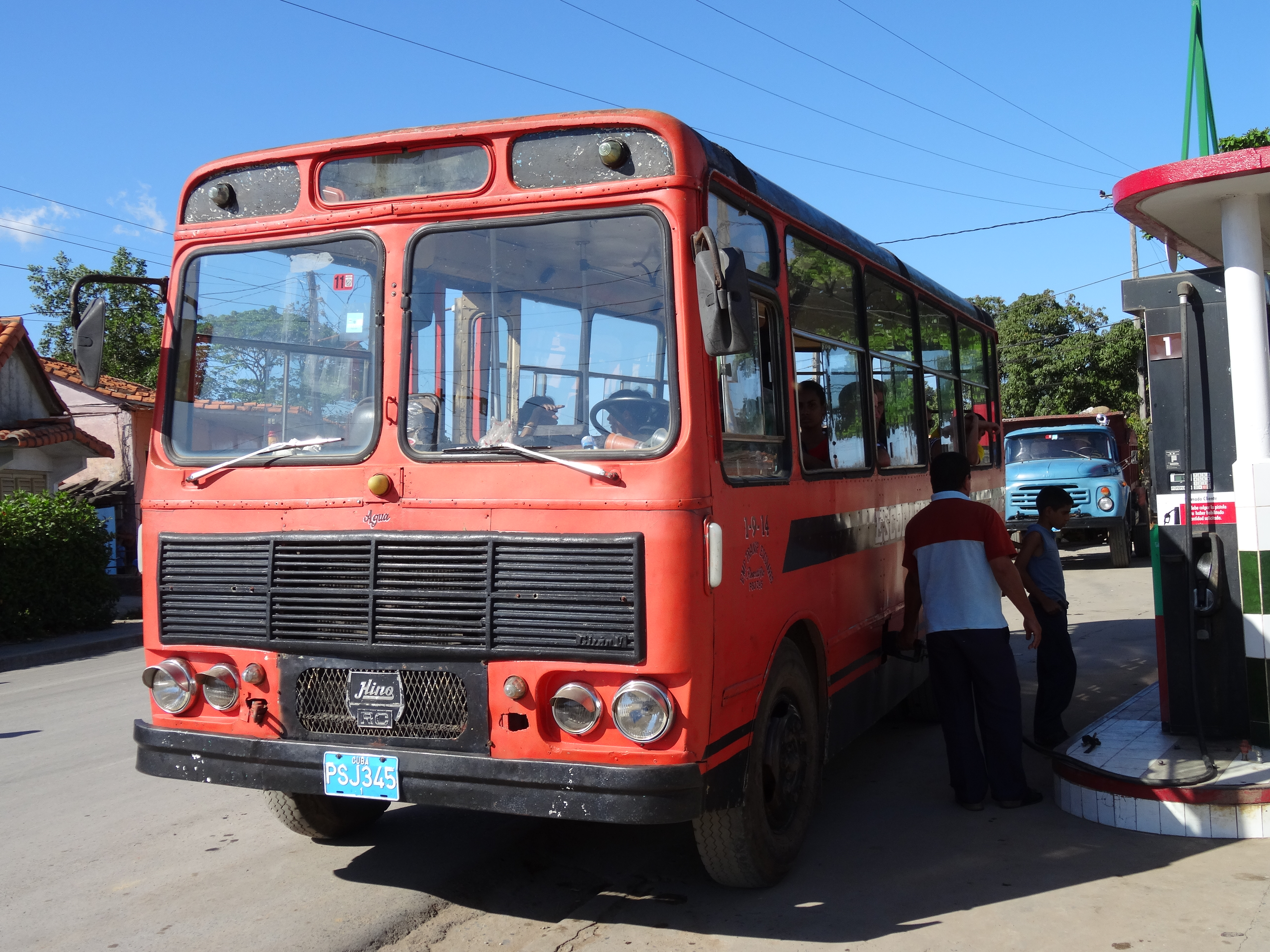 Cuba, Girón V bus in Vinales